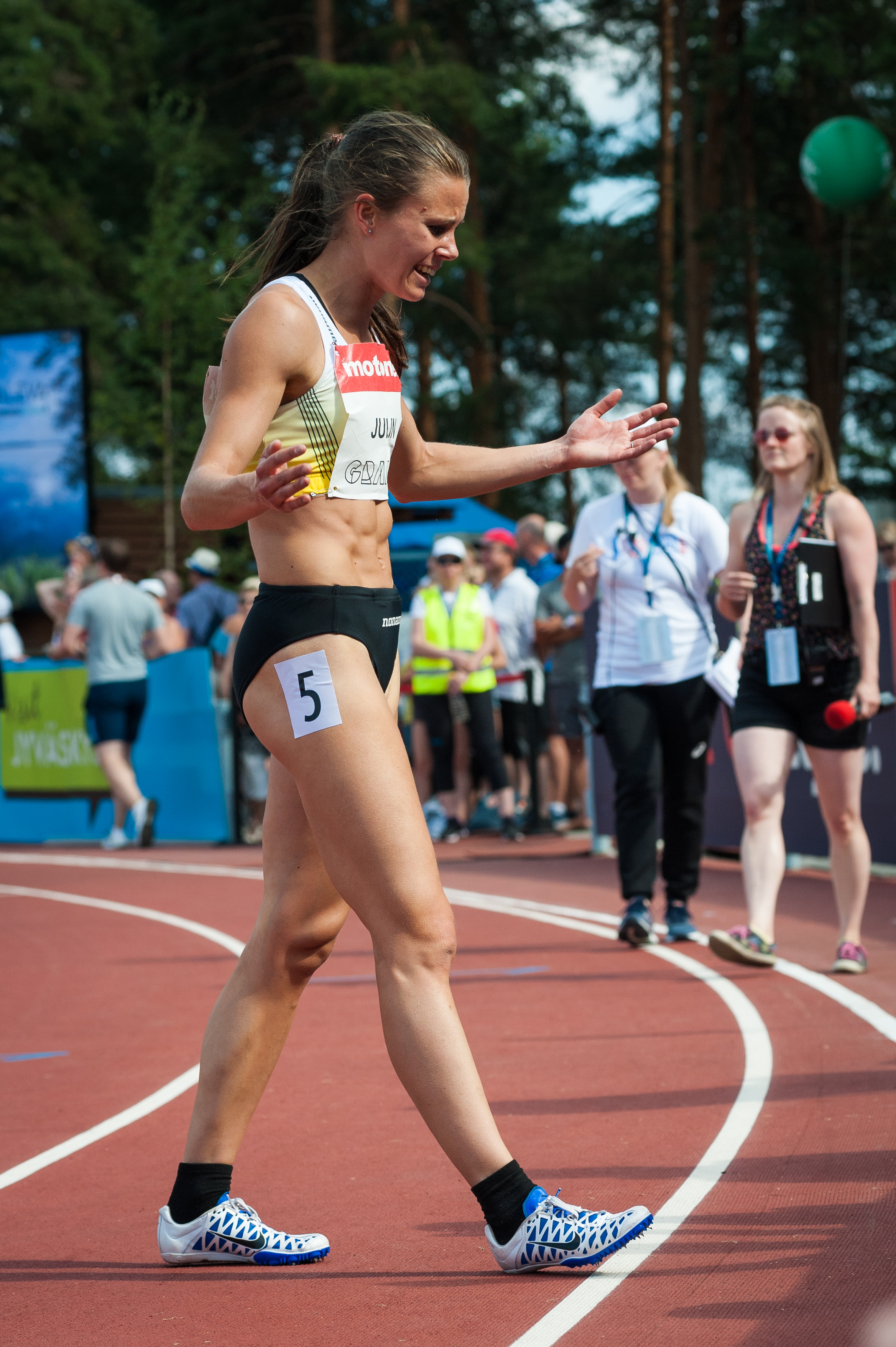 Women's 800 m competition at the 2018 Kalevan Kisat, the Finnish championships in athletics, in Jyväskylä, Finland.